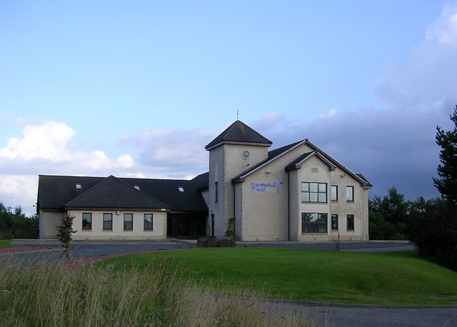 Craighalbert Church, Cumbernauld. Independent evangelical church.